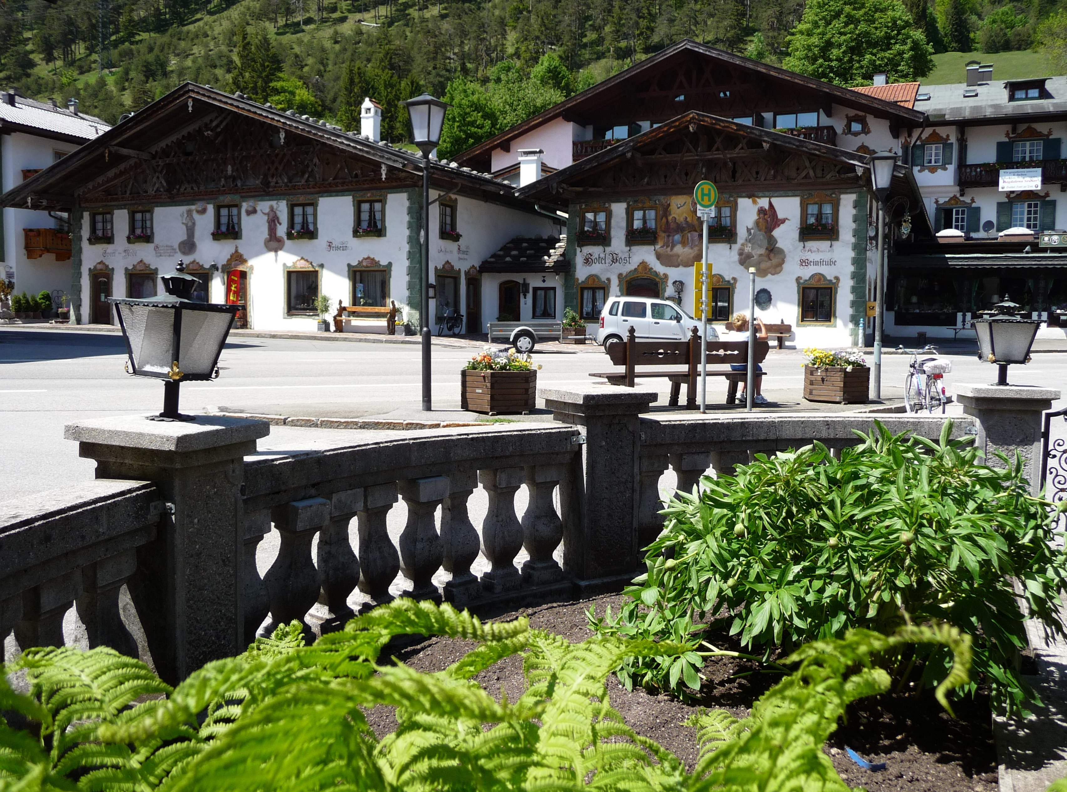 Village square with war memorial section at front, Wallgau, Germany